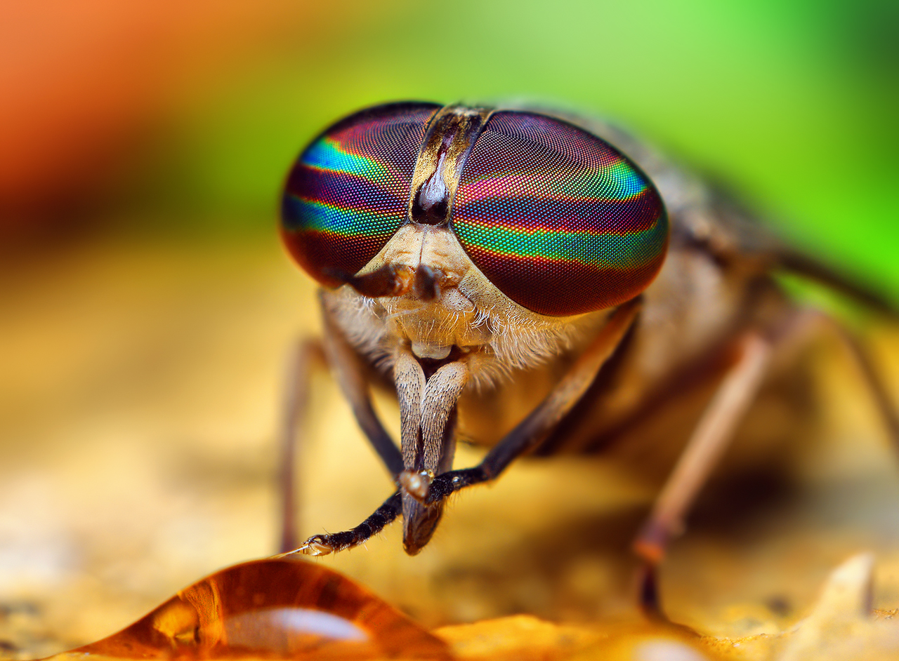 I haven't been going out looking for bugs as much as I would like to as it has been quite hot around here lately (over 100 degrees). But I did manage to take a short drive out to Lake Bixhoma this afternoon with the usual hopes of finding new jumping spiders. Although I only found one common salticid, I had a great afternoon. After just an hour or so, my eyes were filling with sweat so fast, looking through the viewfinder was nearly impossible. I decided to call it a day at that point, as I ruined a few buttons on my last camera from sweating. What happens is that when I look through the viewfinder, the tip of my nose rests right on the playback button, and effectively acts like a funnel channeling all my sweat right into the button. This female horsefly was circling and buzzing around me for a good half an hour before I came across an overgrown concrete picnic area. She immediately flew underneath a broken concrete table and rested on the underside. I caught her in a toothpick container and headed home as I didn't feel like attempting to photograph her there. Once home, I smeared a bit of honey on a stone outside and let her loose. She went right for the honey, I took a few photos, and then she flew away (all within about 30 seconds). The photo was taken with the 50mm reversed on a few extension tubes.